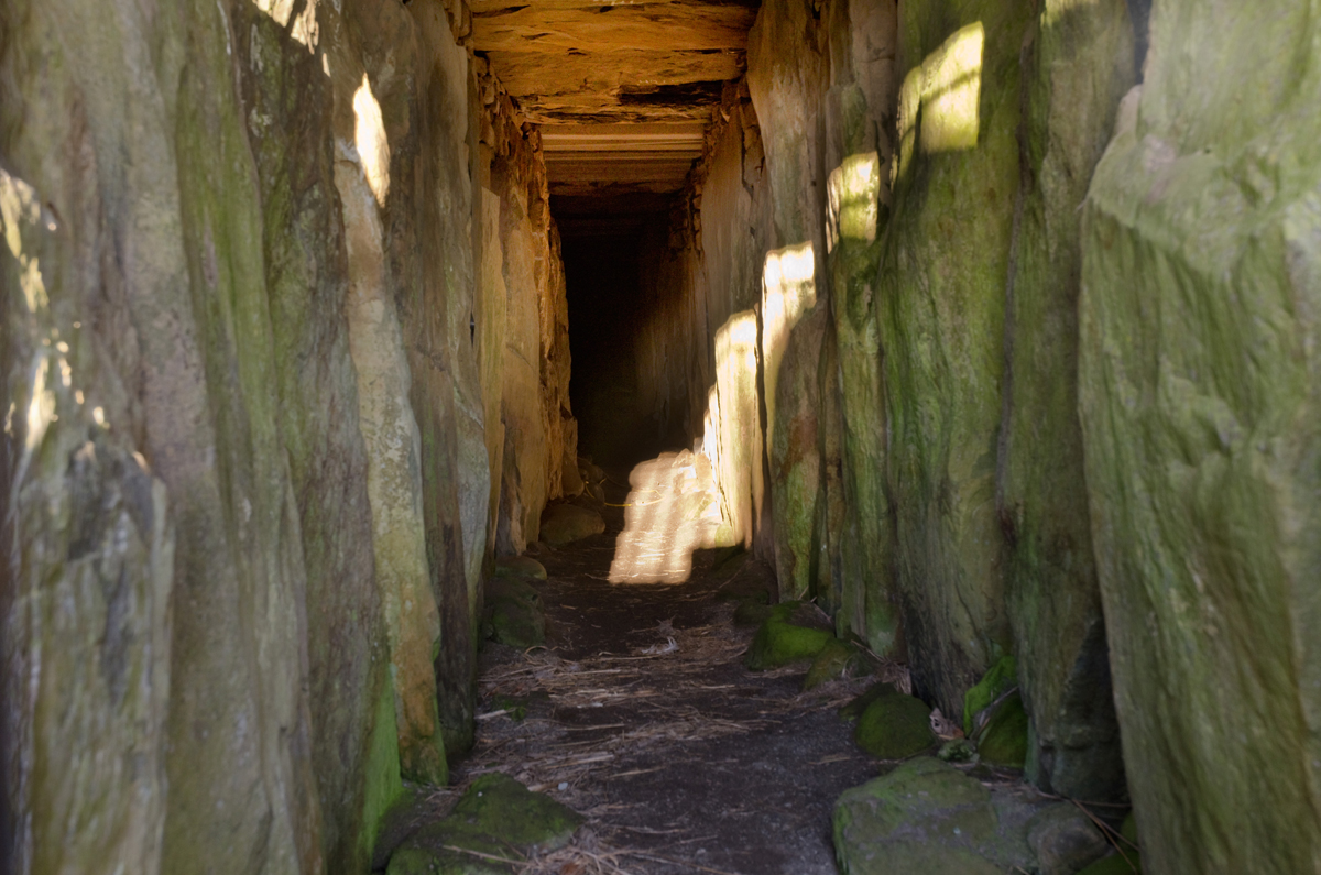 Knowth Passage Tomb Cemetery